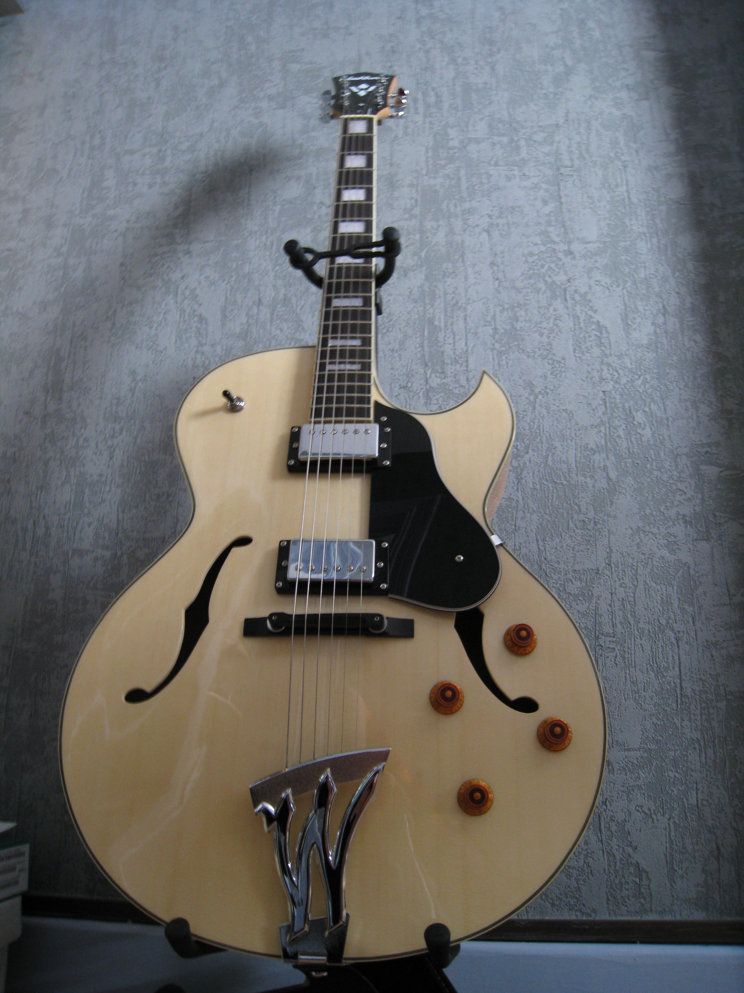 “My jazz guitar, Washburn J3..” —Jérôme Greco